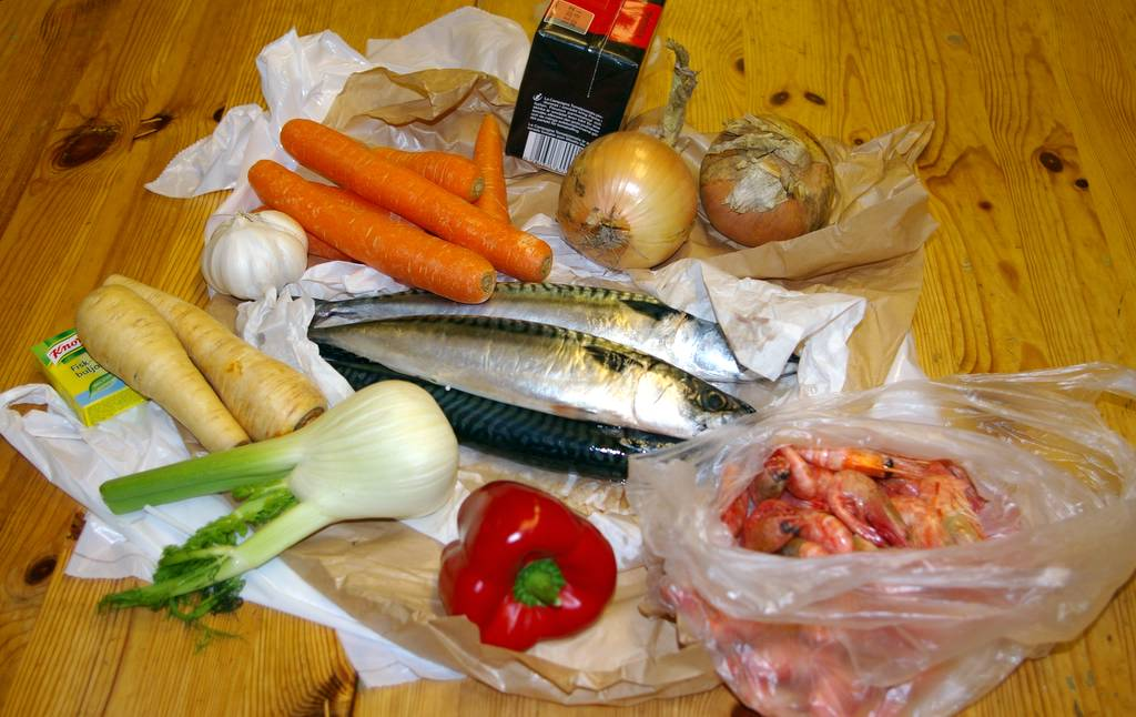 Fish, fish soup